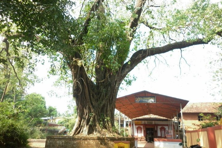 അക്ലിയത്ത് ശിവക്ഷേത്രം